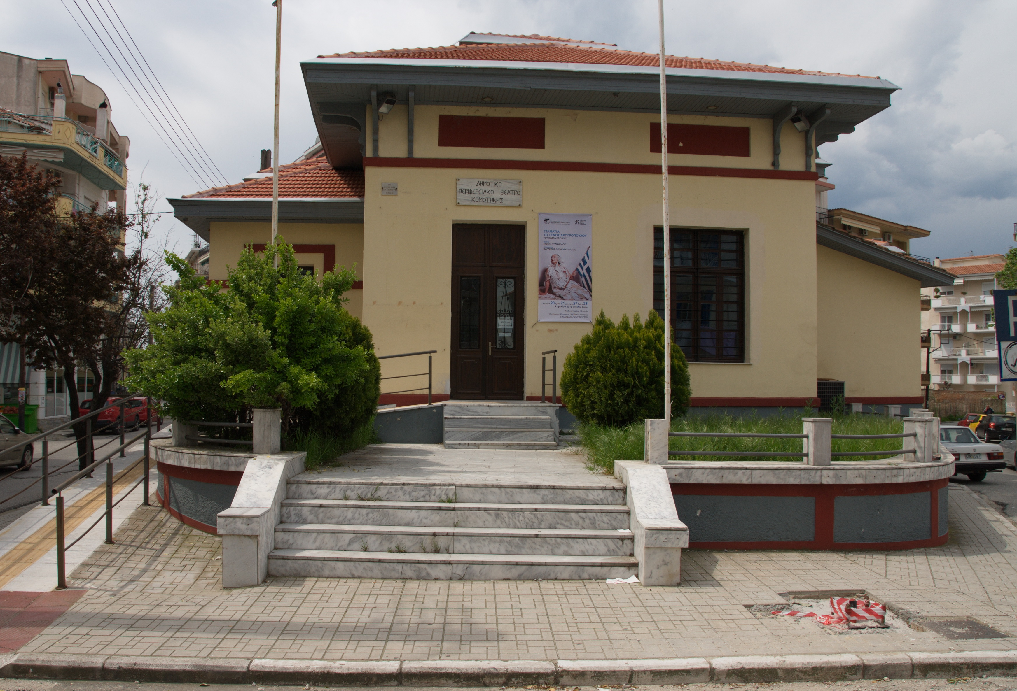 Building of Municipal and Regional Theatre of Komotini